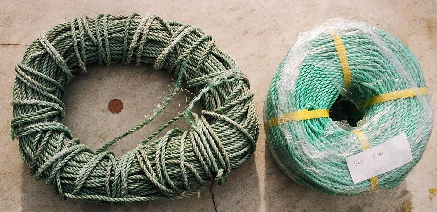 Comparison of a rope that has been degraded by UV Radiation to a new rope